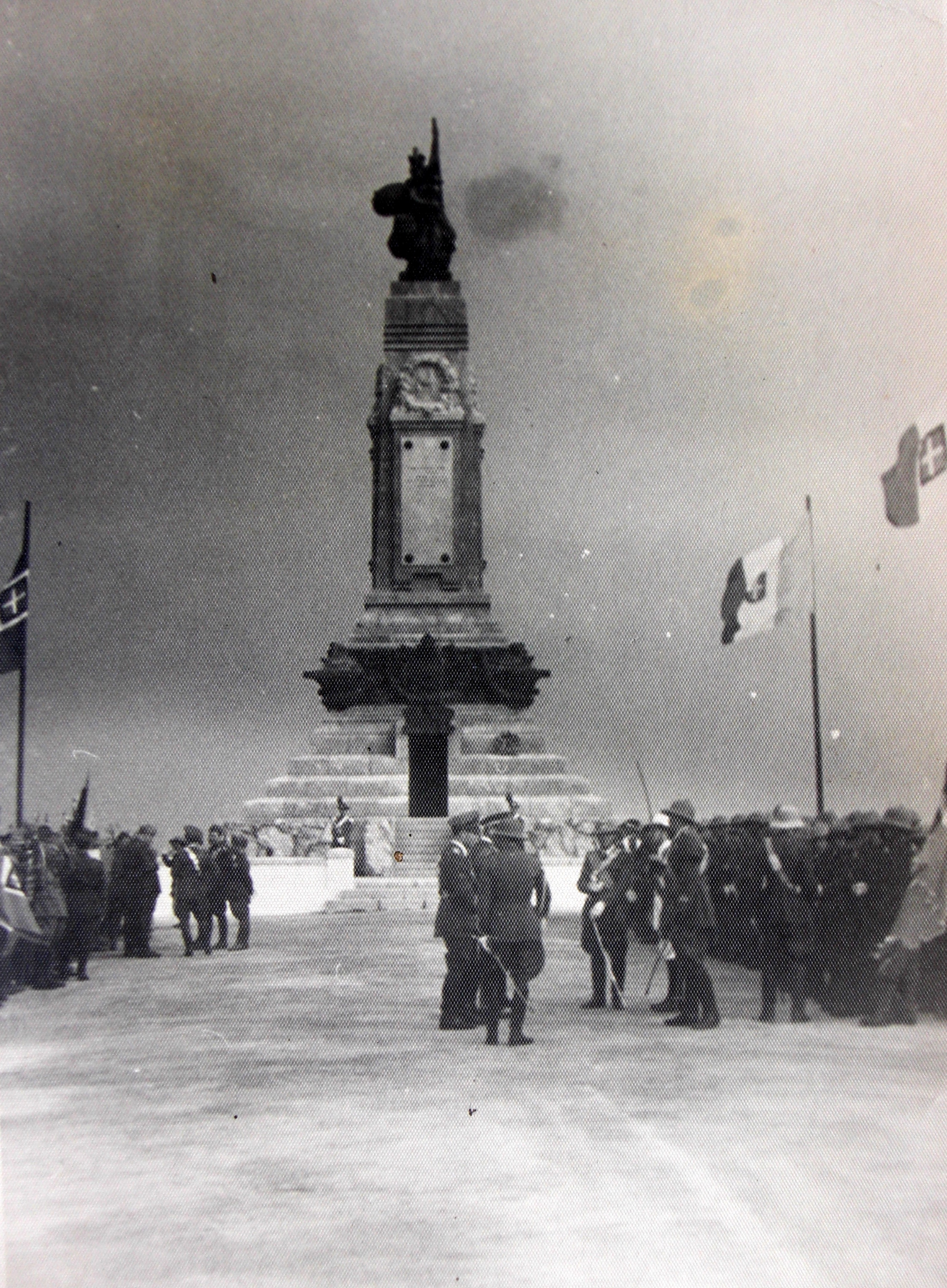 The king of Italy (then colonial ruler of Libya), Vittorio Emanuele III, visiting Bengasi / (Benghazi).